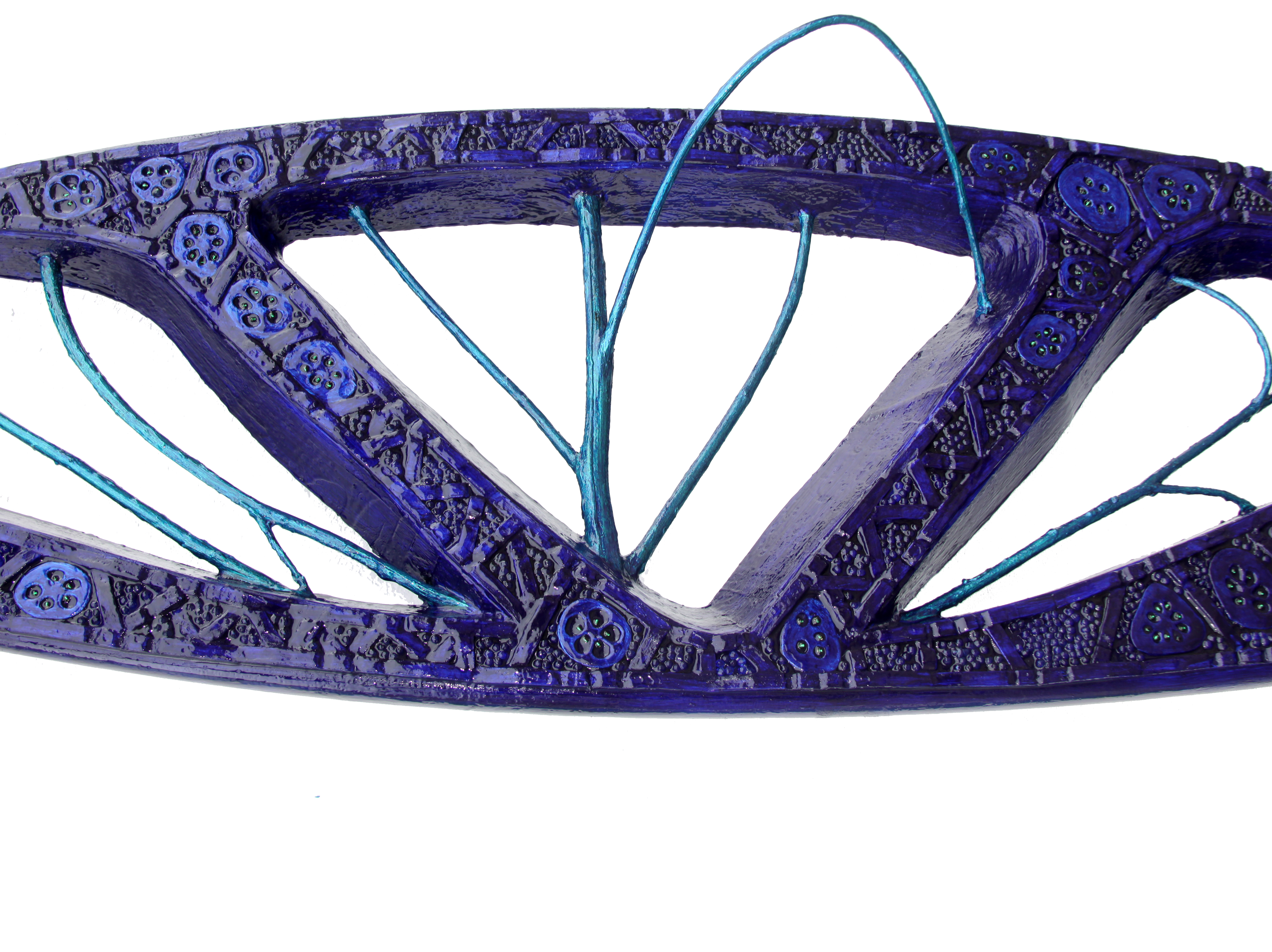 Detail of "Amanari", from the series entitled Jurema, a recycled-surfboard sculpture created by Californian artist Ithaka Darin Pappas in AkahtiLândia, Brazil- 2009.